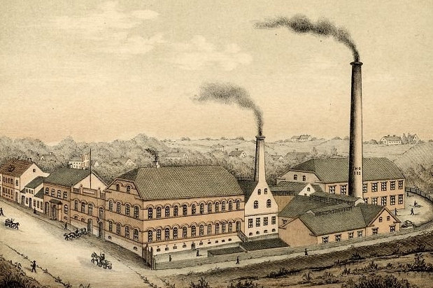 The former textile factory Hørsholm Klædefabrik